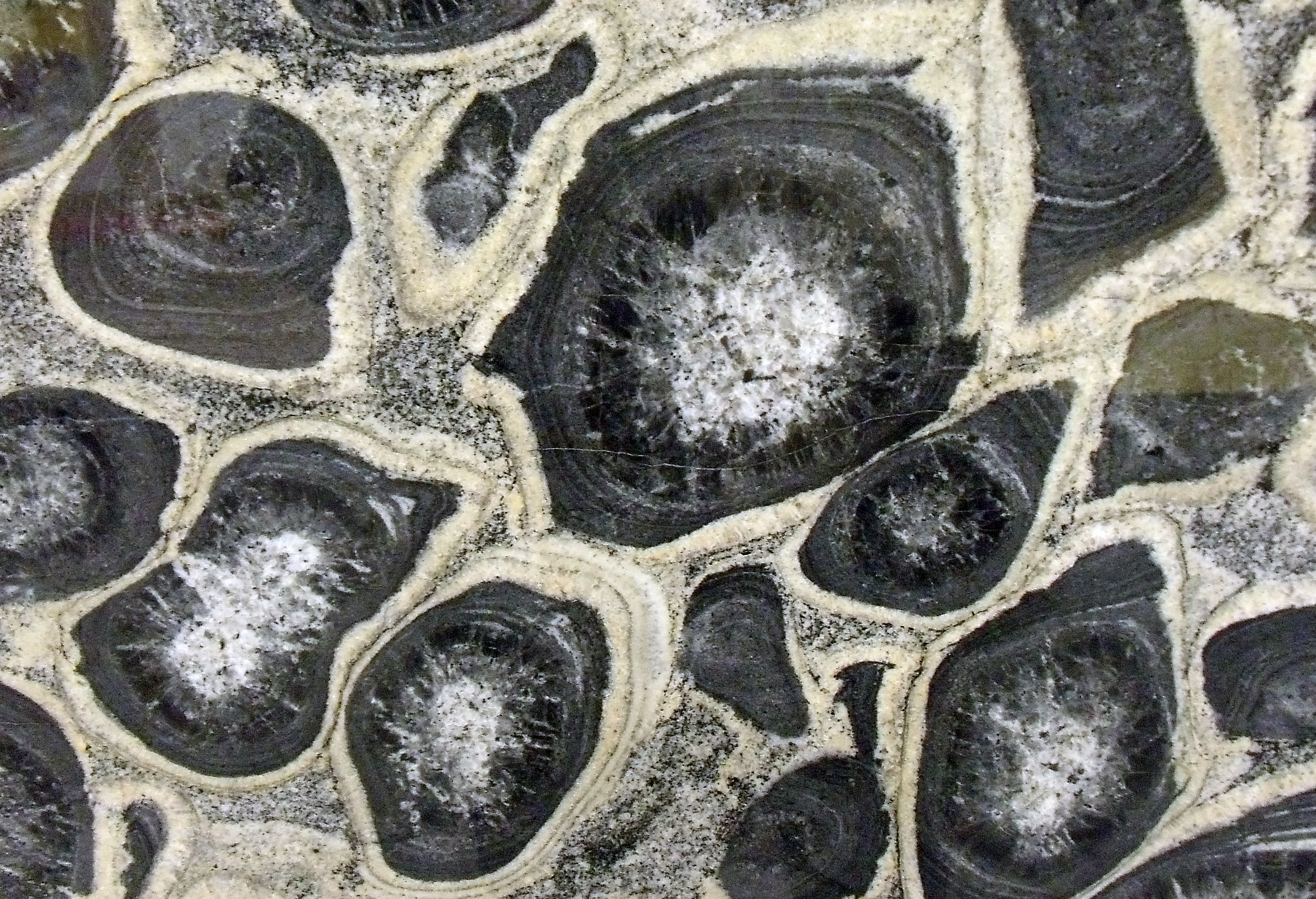 Google search suggests this is orbicular granite from Pengonpohjn, Kuru, Finland. Cobble-sized orbs are inches across. Pacific Museum of the Earth, University of British Columbia, BC, Canada with its label lost during renovation. A great link to orbicular igneous rocks: 396, Jan 22/10